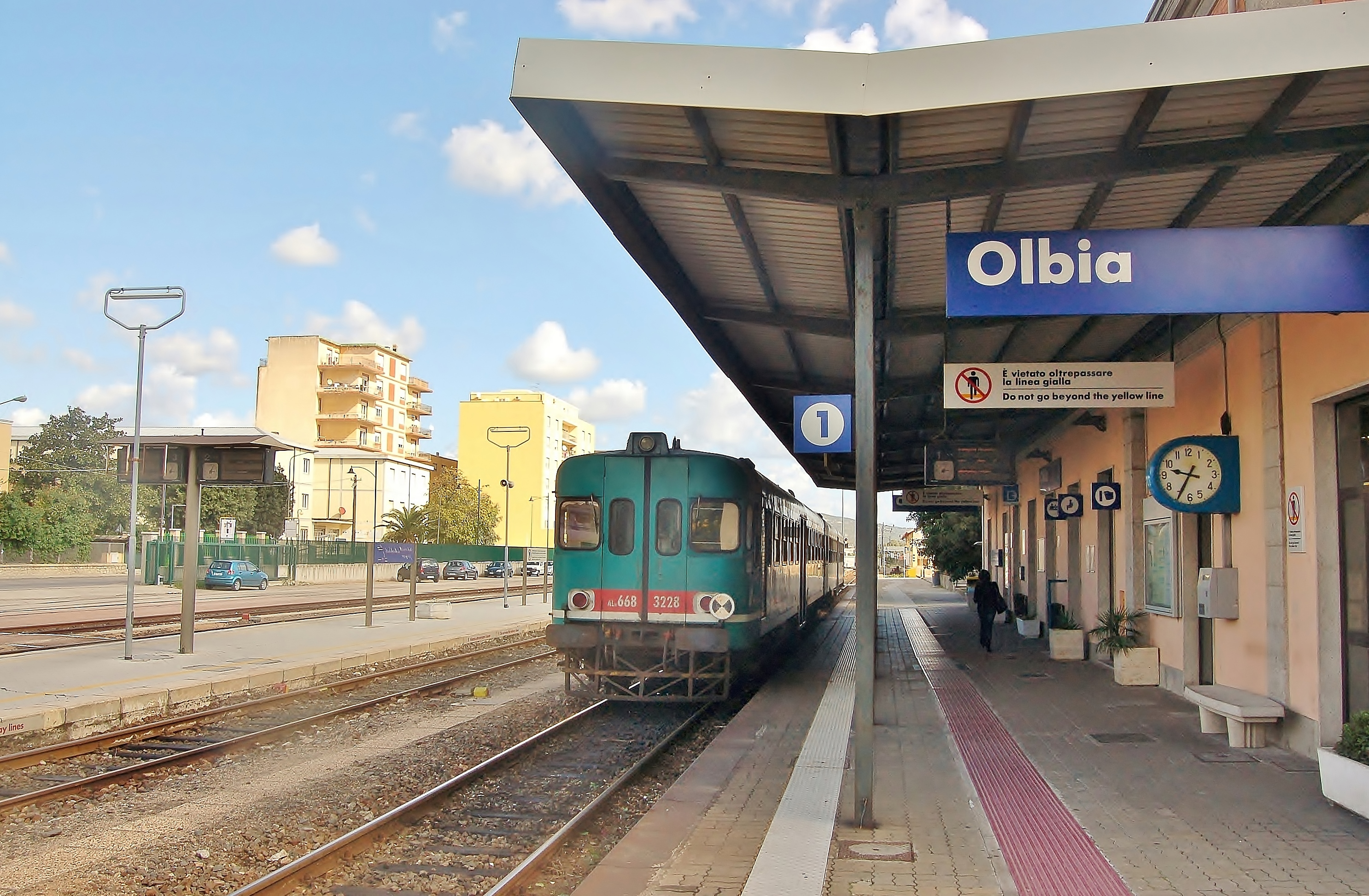 Olbia railway station platform, Sardinia, Italy, looking north east, with ALn 668 3228 at centre.